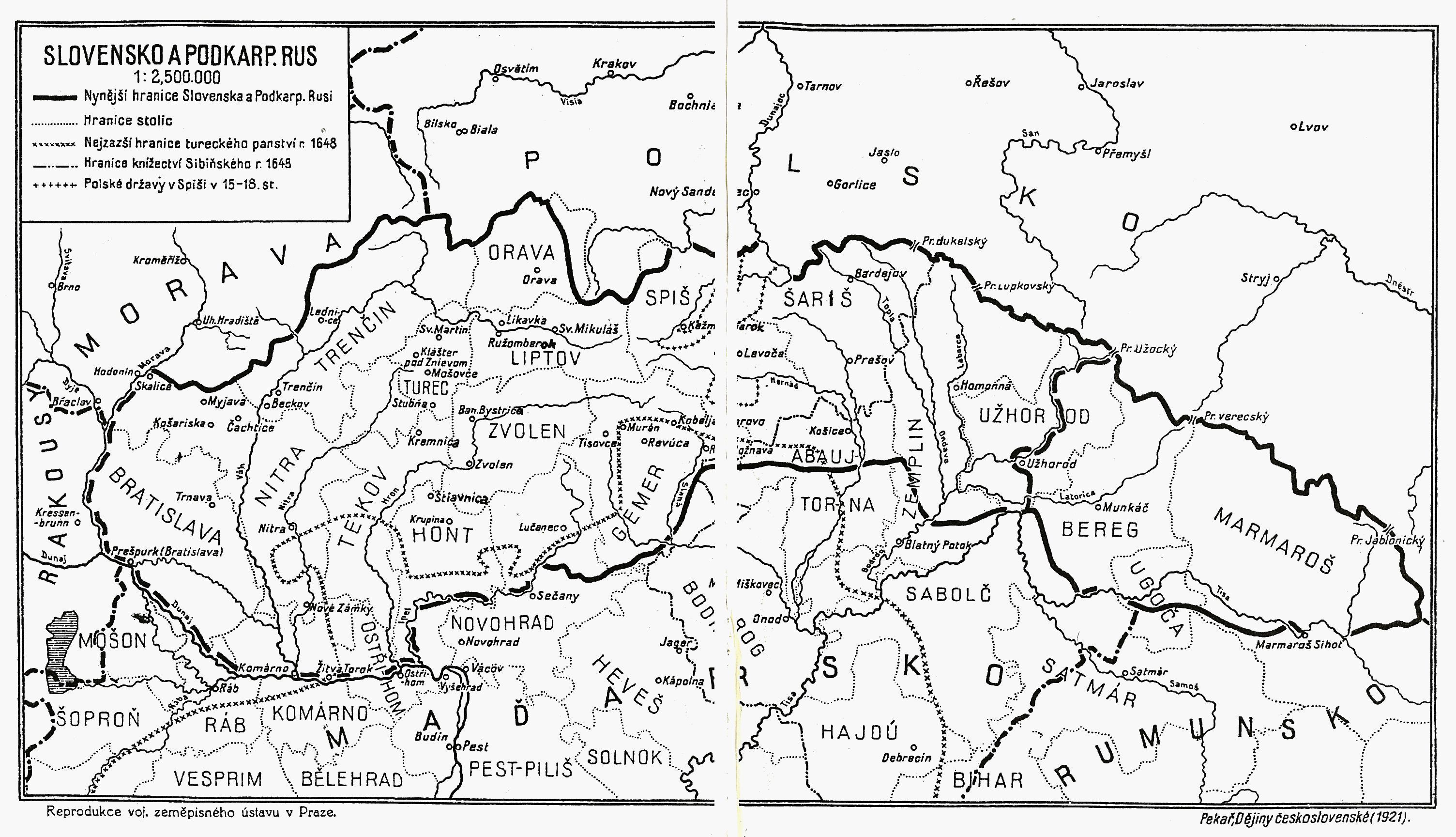 Map of Slovakia and Subcarpathian Ruthenia as parts of Czechoslovakia. The descriptions are in Czech.